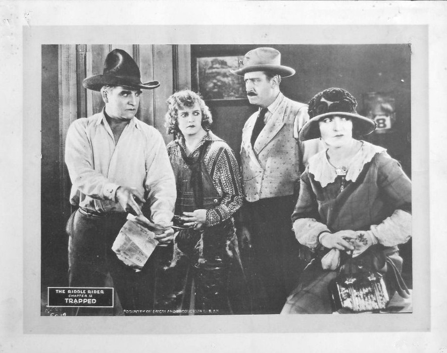 Lobby card for the American western film serial The Riddle Rider (1924), Chapter 12 "Trapped".